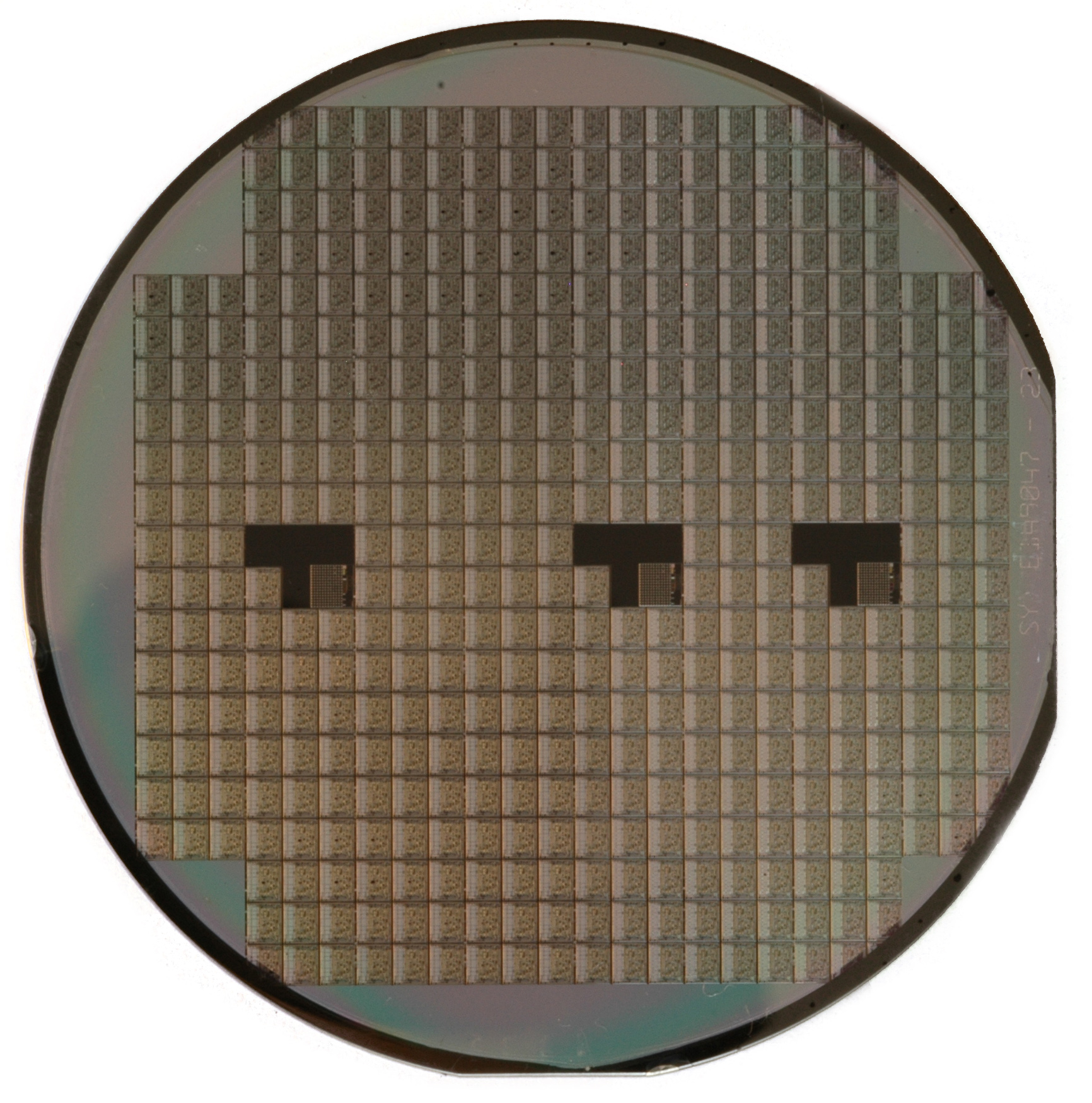 Photograph of a silicon wafer.